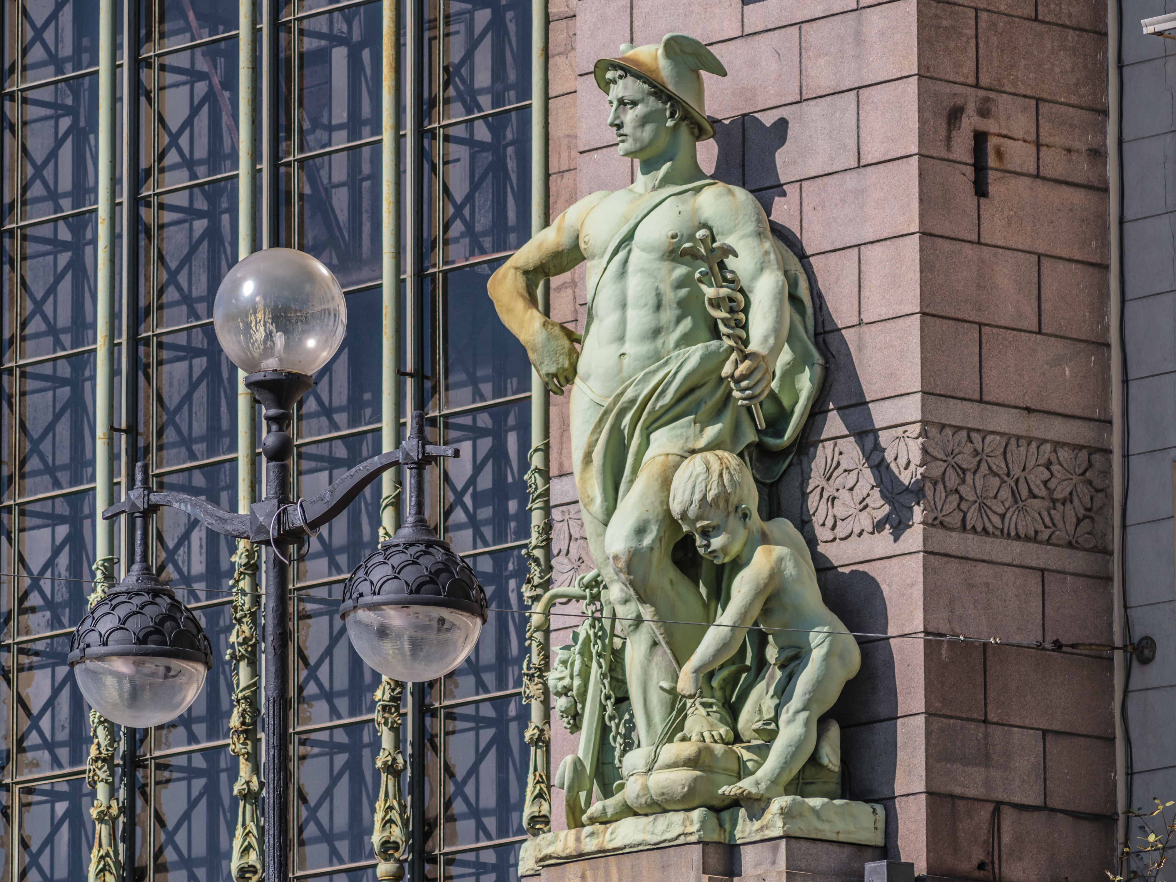 Commerce Sculpture on Eliseev House in Saint Petersburg